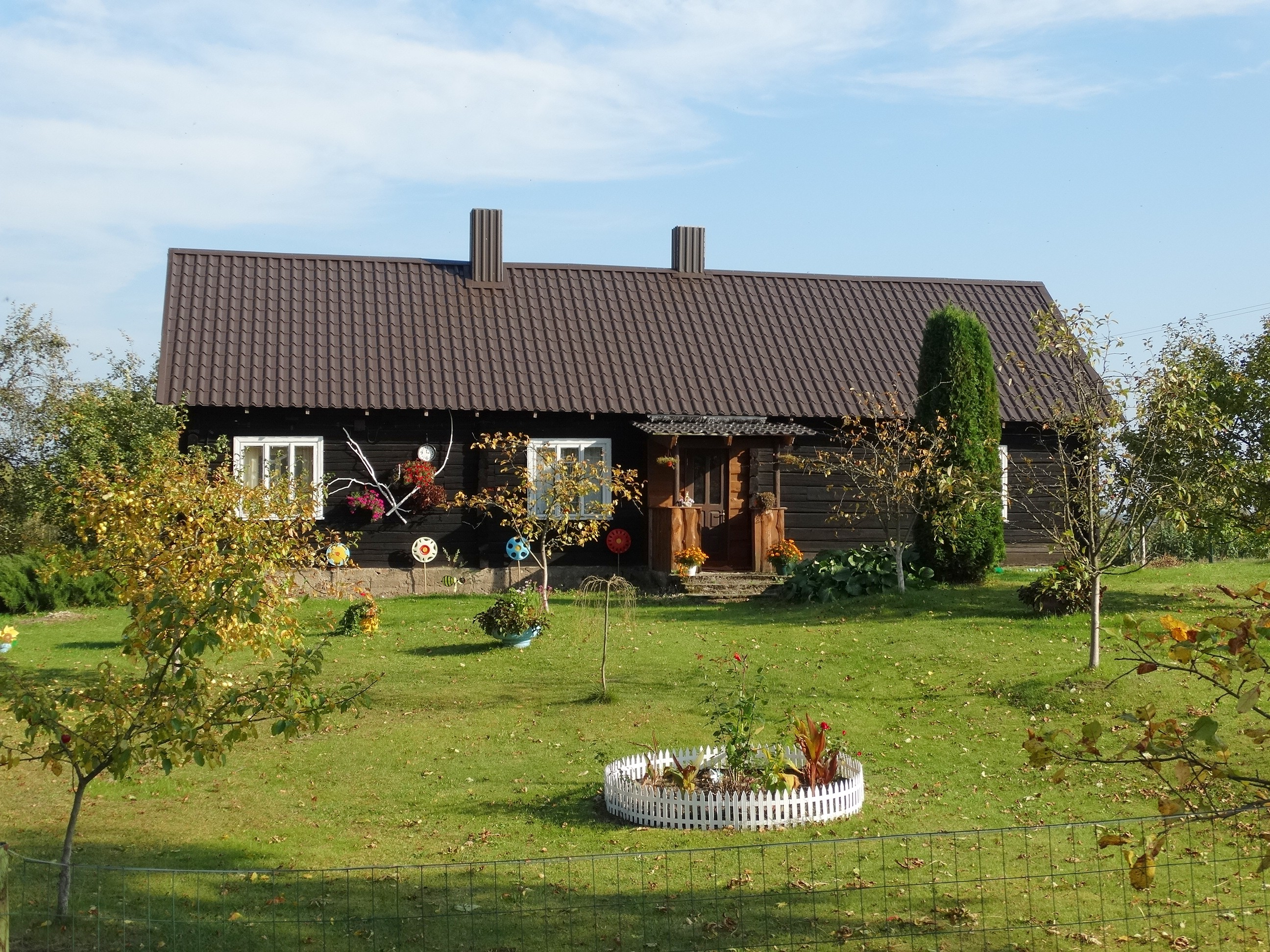 Panemuninkai, Alytus district, Lithuania